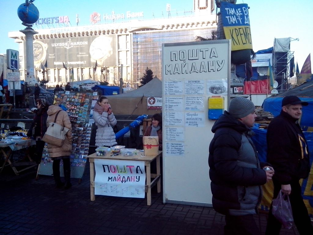 The mail stand near the Main post office at Maidan square